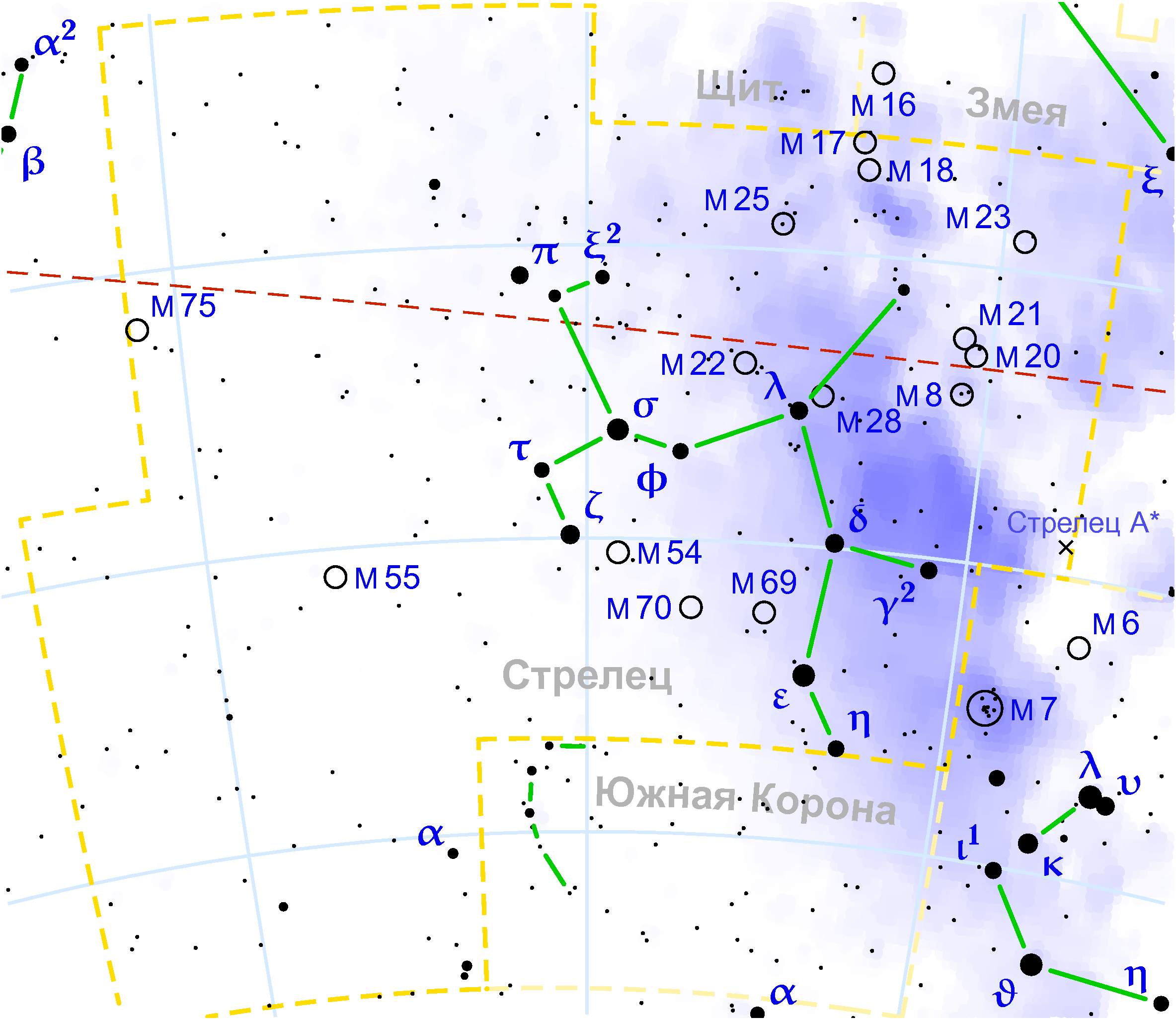 Sagittarius constellation map in Russian